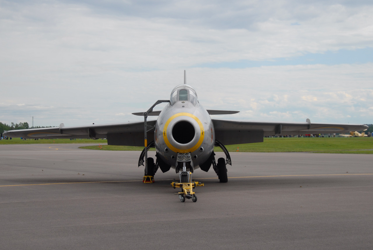 Saab 29 Tunnan (J 29) "Gul Rudolf" at the Swedish Armed Forces' Airshow 2010.